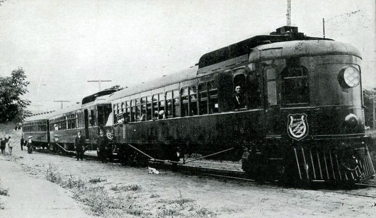 Postcard photo of a car on the Dan Patch Electric Line, which was an electric commuter rail line in the Savage, Minnesota area. The line was started by Marion Savage, the owner of Dan Patch, a race horse. Savage's rail line had financial difficulty and ended with his death in 1916.